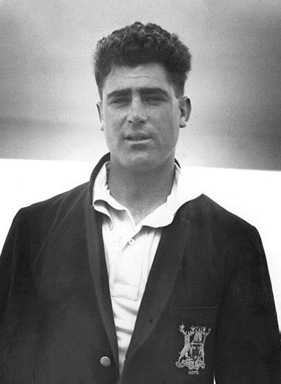 The English cricketer, W Voce, on board the Orient Liner, 'Orontes.'